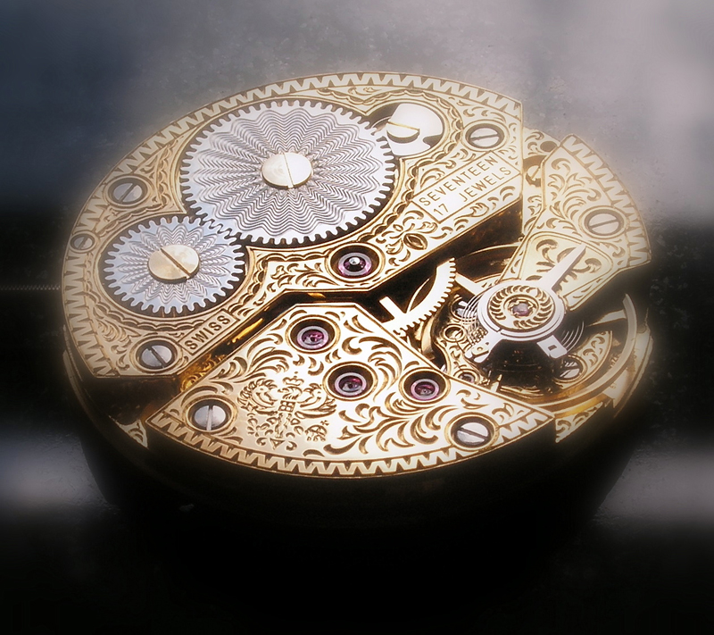 Luxury at work: A full-laminar master engraving, guilloche-engraved gear wheels and gold and platinum platings make this refined movement a class of its own.